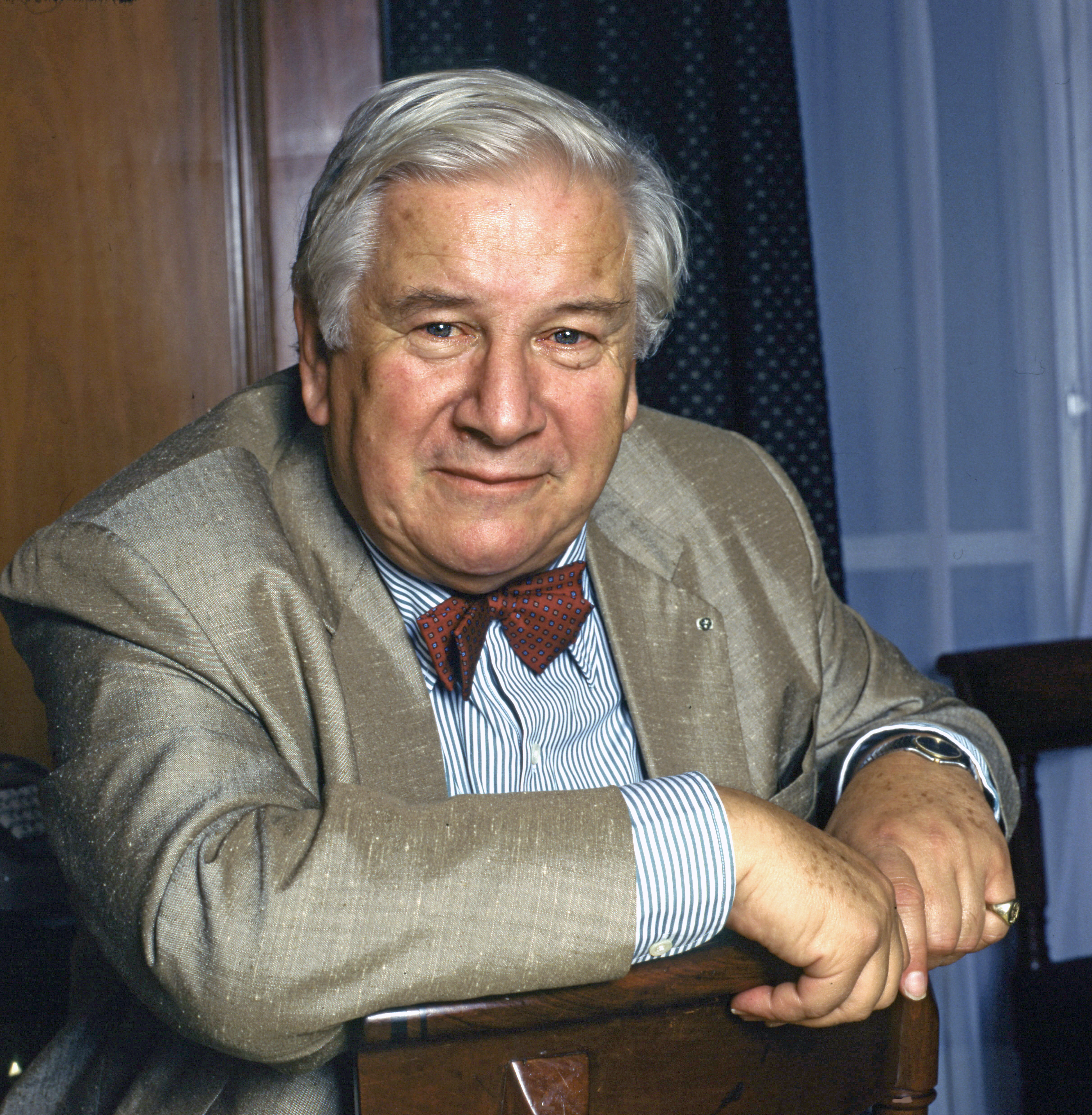 Portrait photograph of Peter Ustinov (1986)